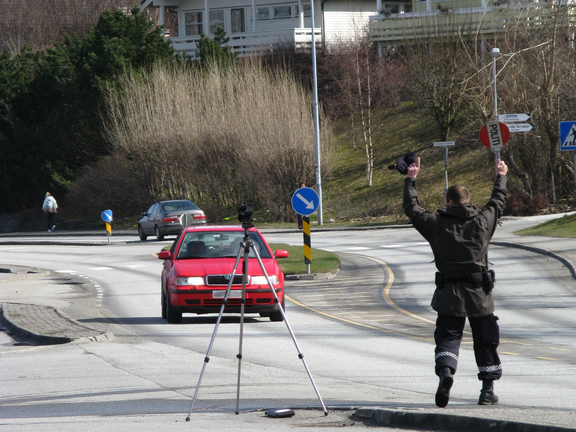 A car being directed into a holding area during a laser speed control.